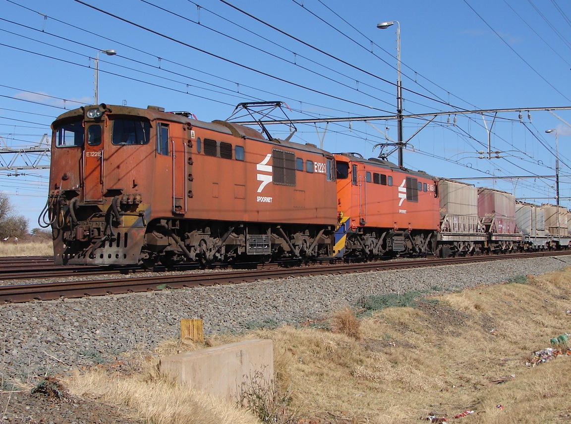 SAR Class 6E1 Series 1 E1228 Location: Warrenton, Northern Cape